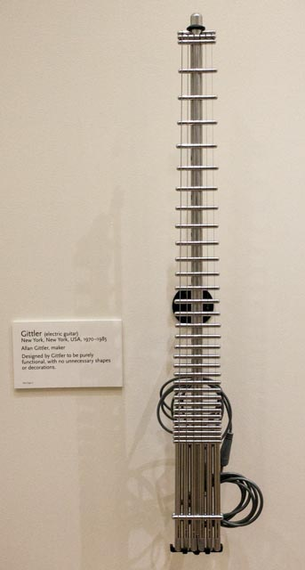 Gittler (electric guitar) (1970-1985) - MIM PHX We read about the Musical Instrument Museum (MIM) on Trip Advisor - it was the top rated attraction in Phoenix - and now we can see why! The museum is dedicated to musical instruments from around the world - the collection is fascinating, the exhibits are great and the hands-on displays were fun. We spent almost 5 hours here and still felt rushed - this place is definitely worth a detour. I know nothing about musical instruments so if you happen to know what a particular instrument is, please feel free to comment on it. I tried to include as many labels as possible. The museum is in Phoenix, AZ - we visited it in March 2014.